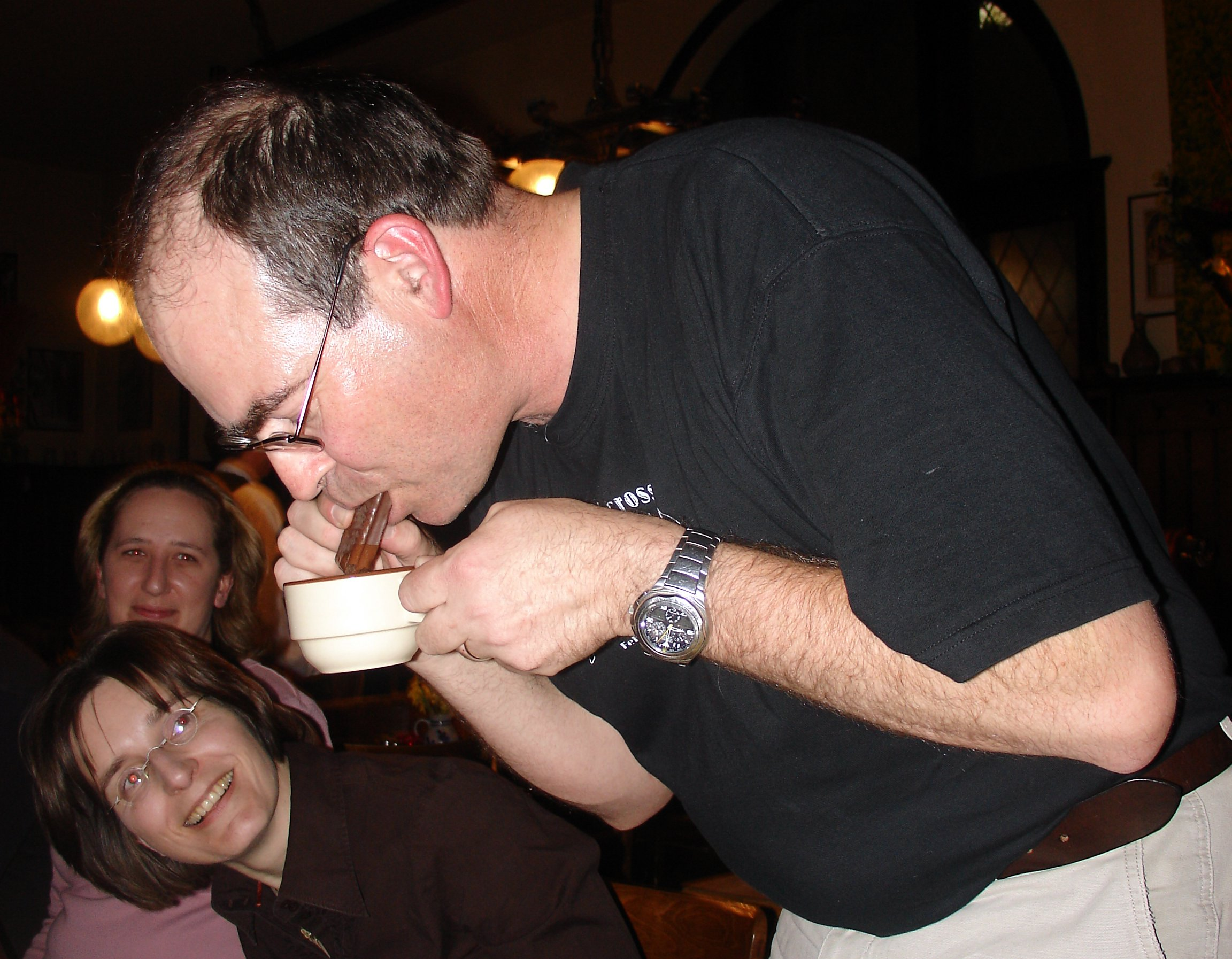 Tim Tam Slam